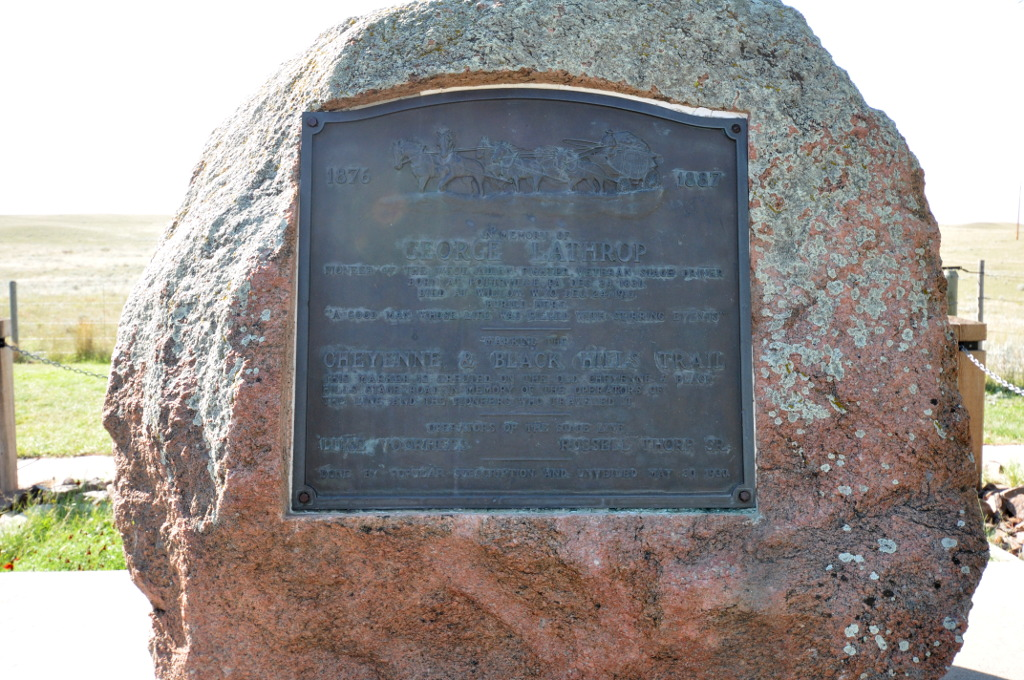 Memorial at the rest area in Lusk, Wyoming. It commemorates George Lathrop, a stagecoach drive, and the Cheyenne-Black Hills Stage Route.